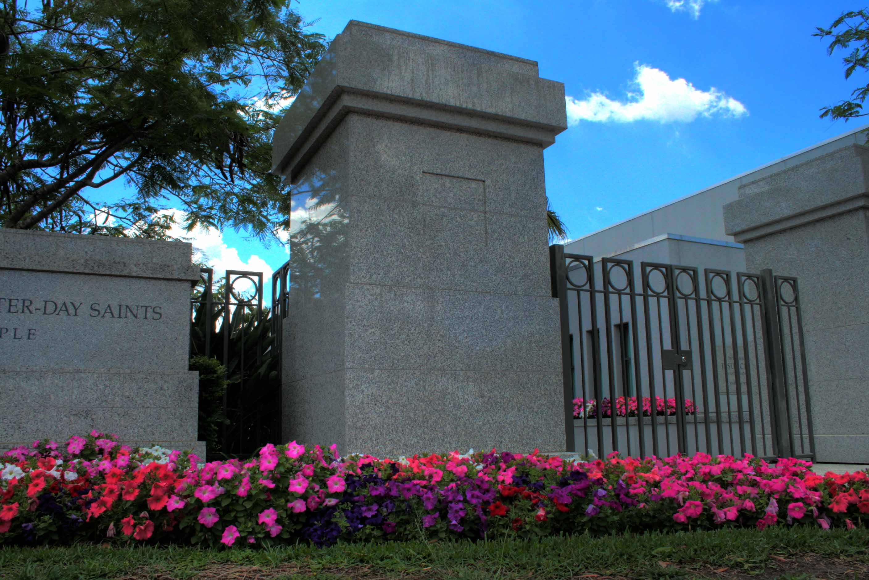 The Brisbane Australia Temple of the Church of Jesus Christ of Latter-day Saints was completed in 2003 at a cost of $11M. The exterior is gray granite, and is a most imposing site high on a cliff above the Brisbane river. They had a public open day that I missed at the time, and after it is consecrated, they have a rule that non-believers can no longer enter, even if they are photographers. Here is one of the entrances lined with Petunias. 7 Days of Shooting, Modern Monday, Flowers and Plants not in you backyard theme.